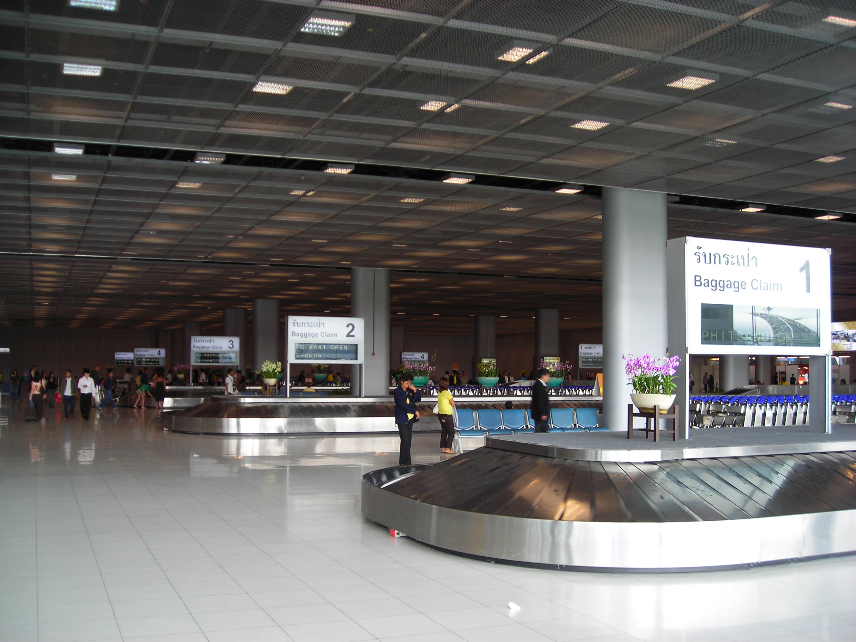 Baggage Claim, domestic terminal of Suvarnabhumi International Airport level 2.